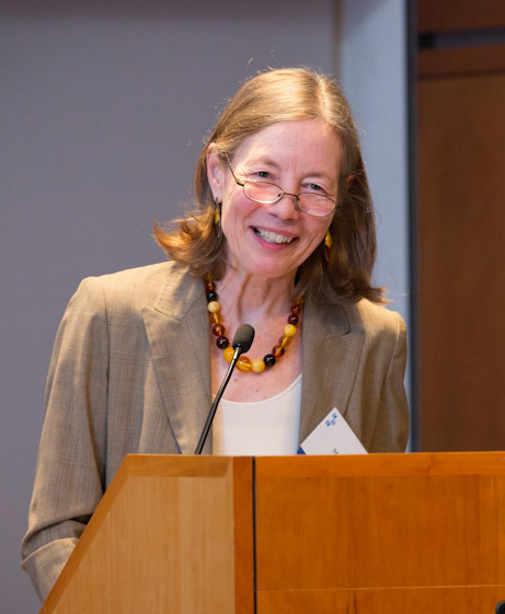 Photograph of Mary Jo Nye, historian of science and recipient of the 2013 Roy G. Neville Prize in Bibliography or Biography at the Chemical Heritage Foundation, Philadelphia, PA, USA, October 10, 2013.